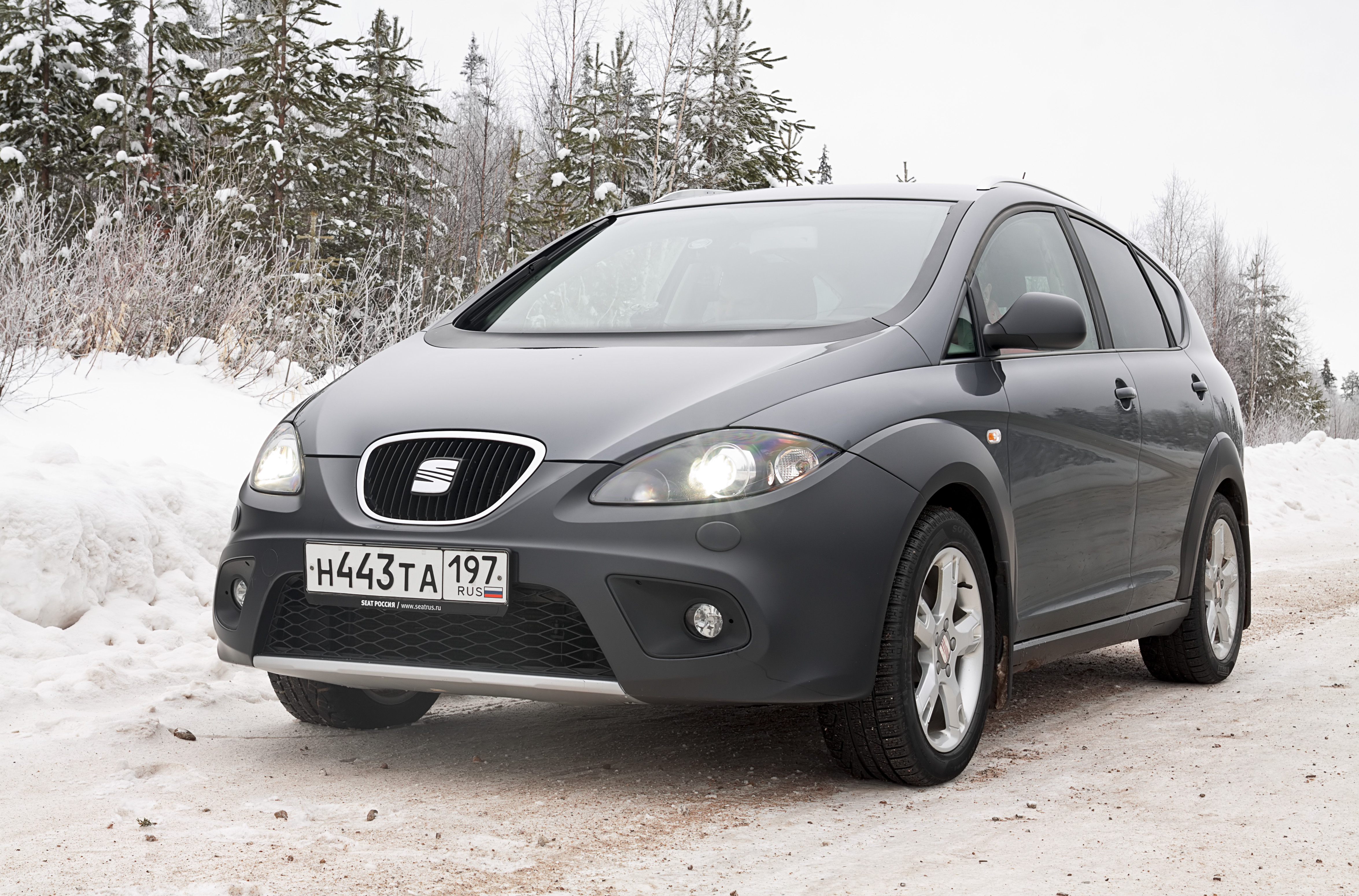 Seat Freetrack on the road from Severodvinsk to Onega and Kargopol